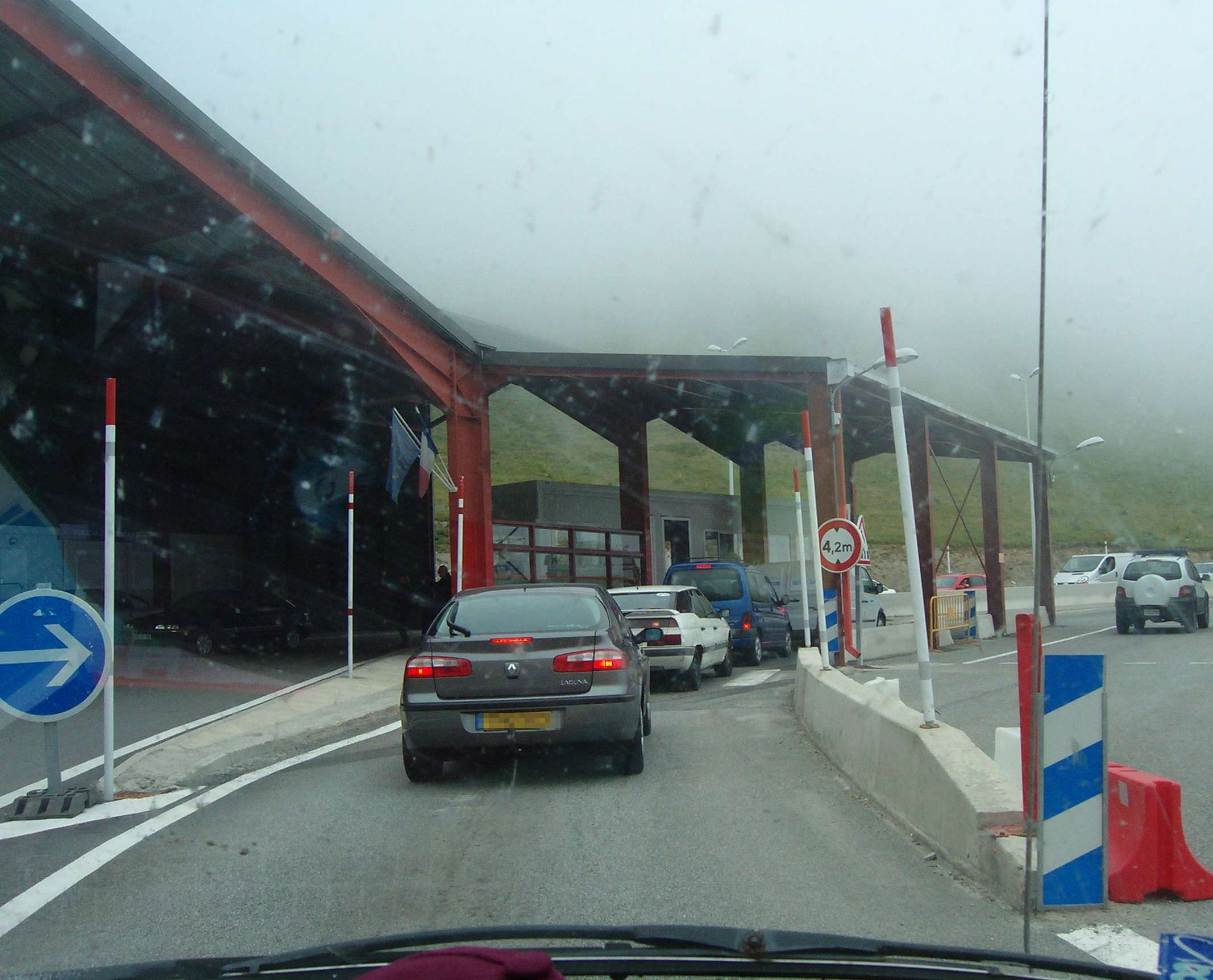 Border of France and Andorra dir. Andorra, with French customs